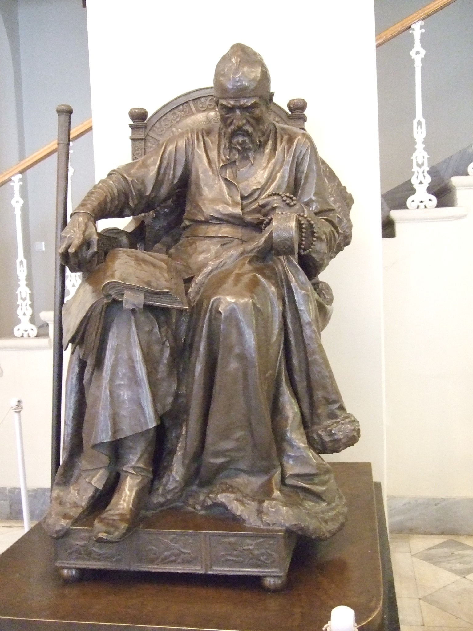 Mark Antokolski Ioann The Terrible The Russian Museum, photography is mine